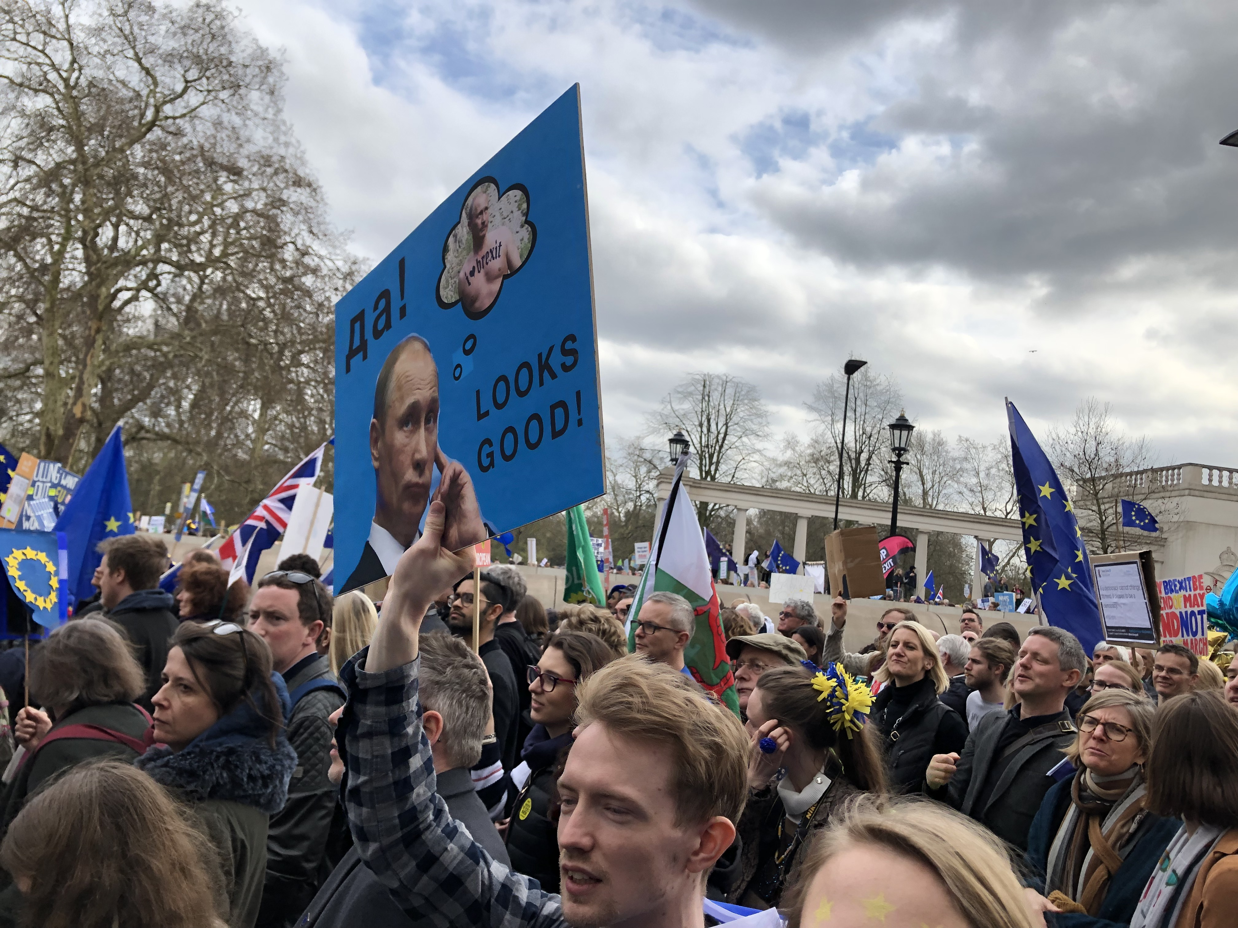 Da - Looks Good !